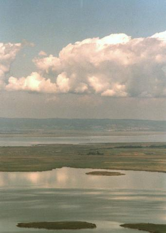 Hegykő, Hungary, aerialphotography